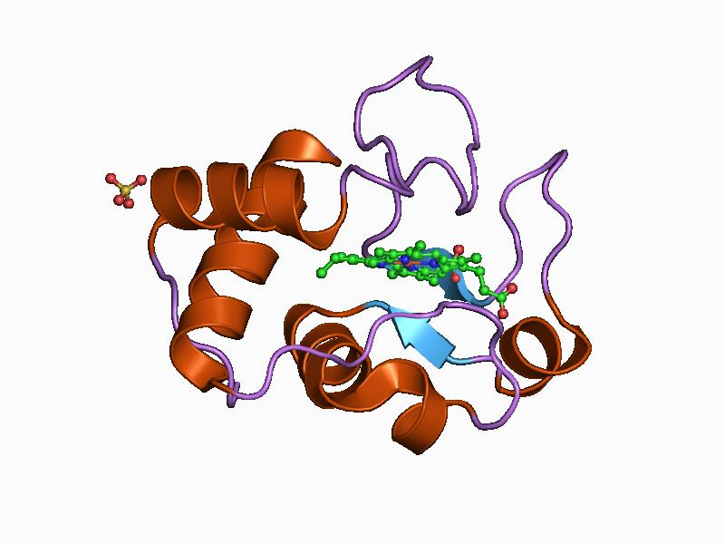 Cartoon representation of the molecular structure of protein registered with 1cig code.